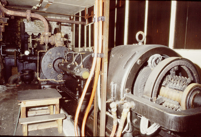 Steam turbine, Bamford Mill This little gem has been scrapped and its room is part of an apartment now. The round casing just left of centre is a Greenwood & Batley De Laval impulse turbine. In the middle is a high ratio reduction gear (the De Laval is very fast) and in the right foreground is the driven dynamo (DC of course) with its commutator and brush gear extreme right. In the left background is the condensing plant with a jet condenser and DC motor driven reciprocating air pump. This was a large example of the breed and its loss is a great shame.